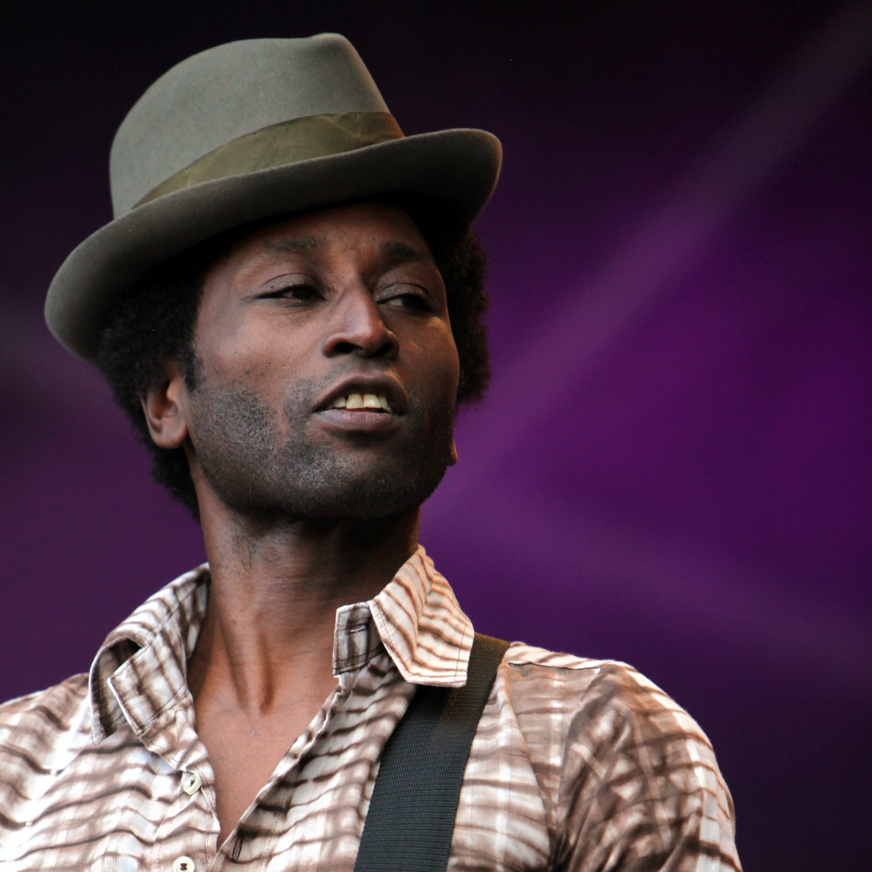 Keziah Jones at the Eurockéennes de Belfort 2011 The making of this document was supported by Wikimedia CH. (Submit your project!) For all the files concerned, please see the category Supported by Wikimedia CH.